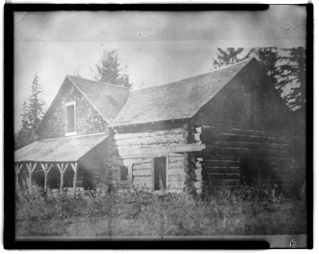 Historic building originally served as Dalton Cache inn and trading post. Supsequently used by Canada Customs.